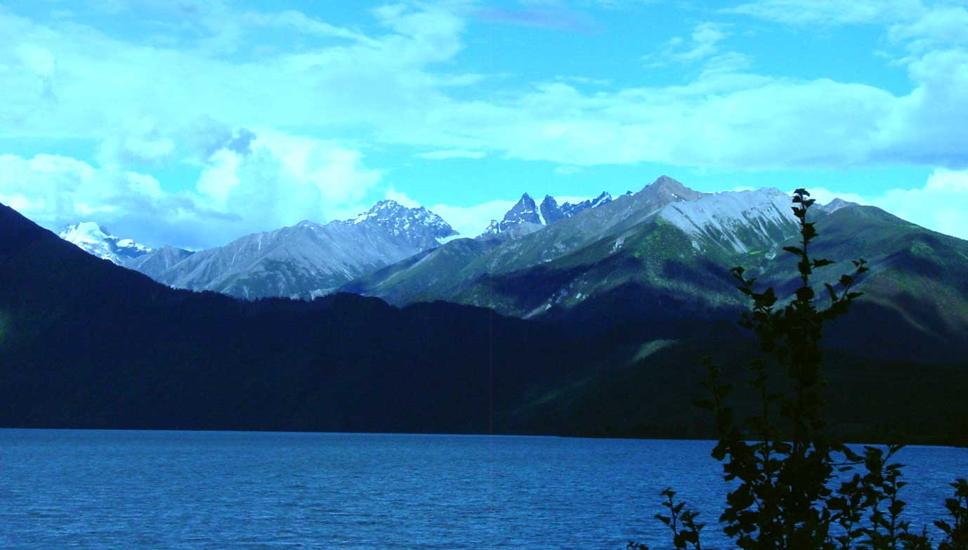 Author: Kosi Gramatikoff